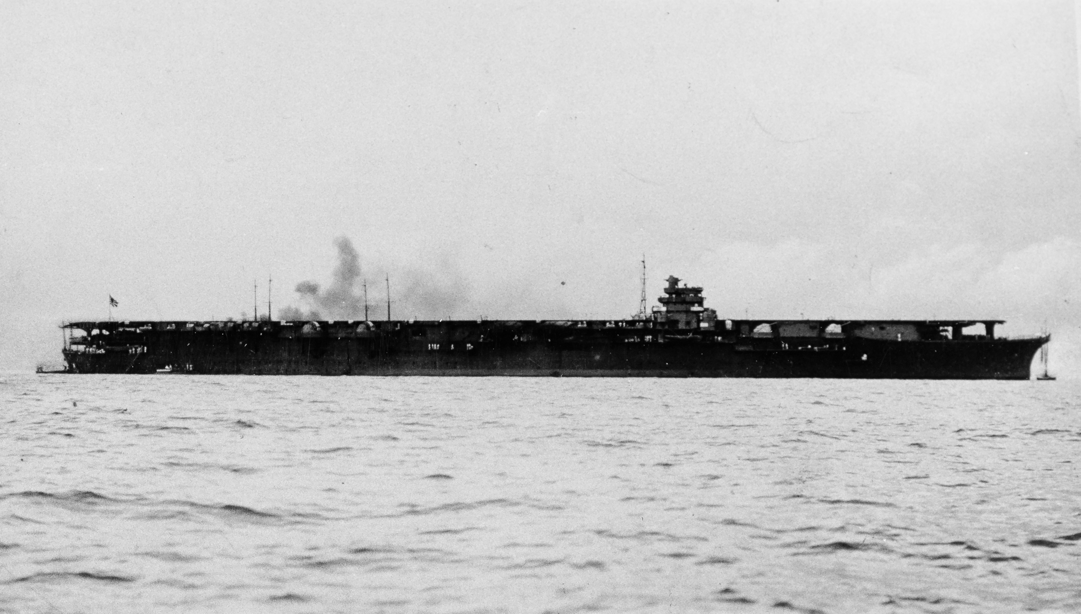 Photo #: NH 73066 Shokaku (Japanese Aircraft Carrier, 1941-1944) At Yokosuka, 23 August 1941, shortly after she was completed. Donation of Kazutoshi Hando, 1970. U.S. Naval Historical Center Photograph.